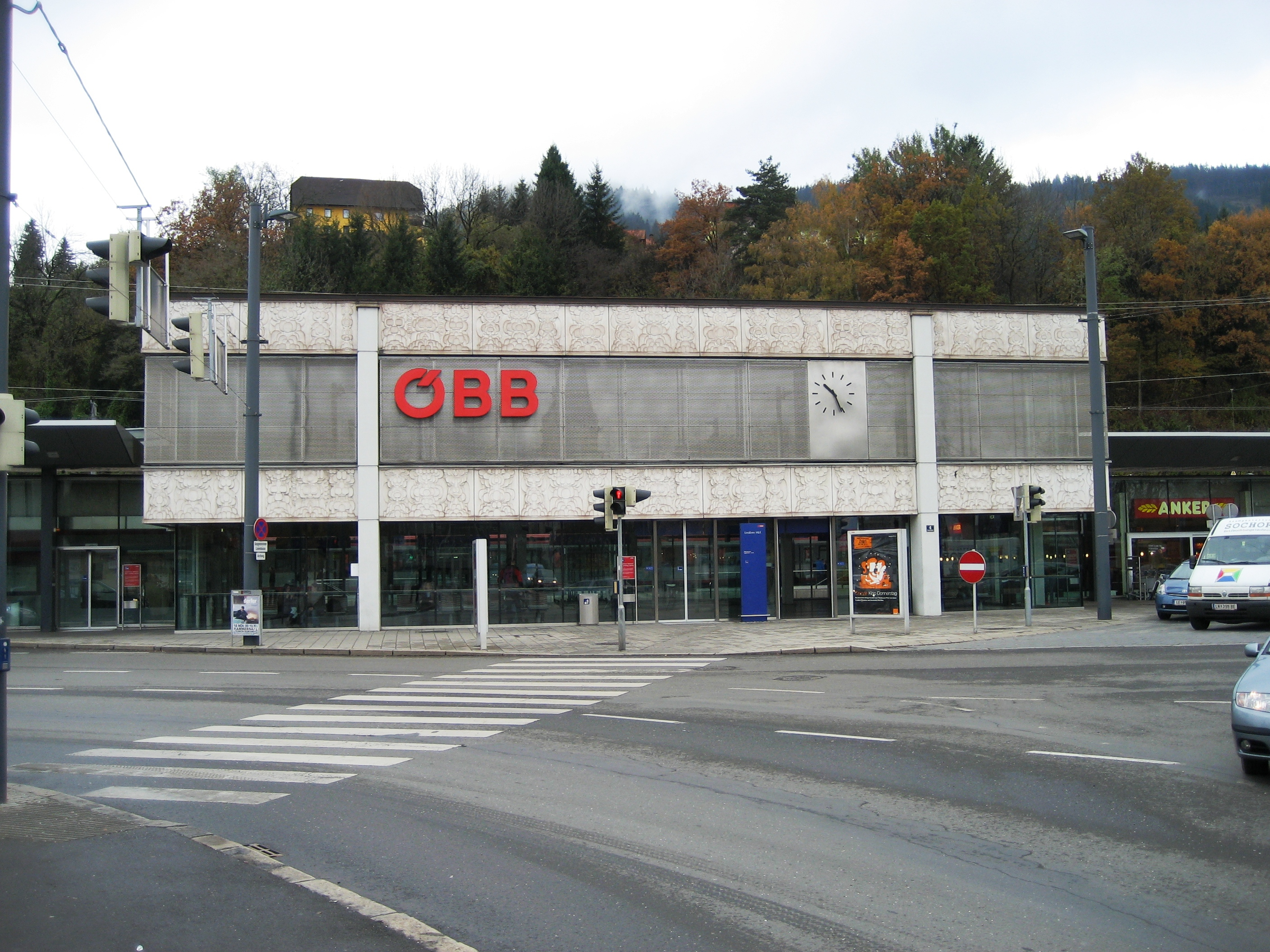 Leoben Hauptbahnhof (Leoben main station) in Leoben, Styria, Austria, Europe